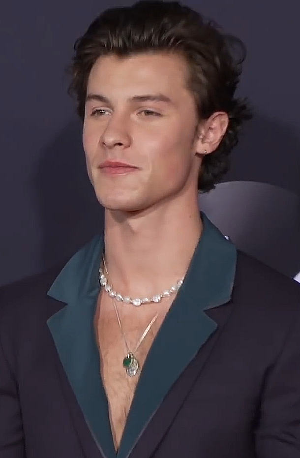 Shawn Mendes at the 2019 American Music Awards